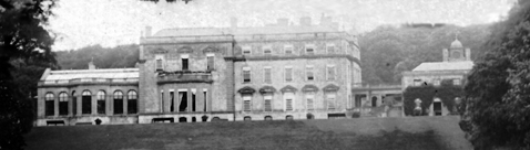 Tehidy House, Illogan, Cornwall, photographed circa 1916